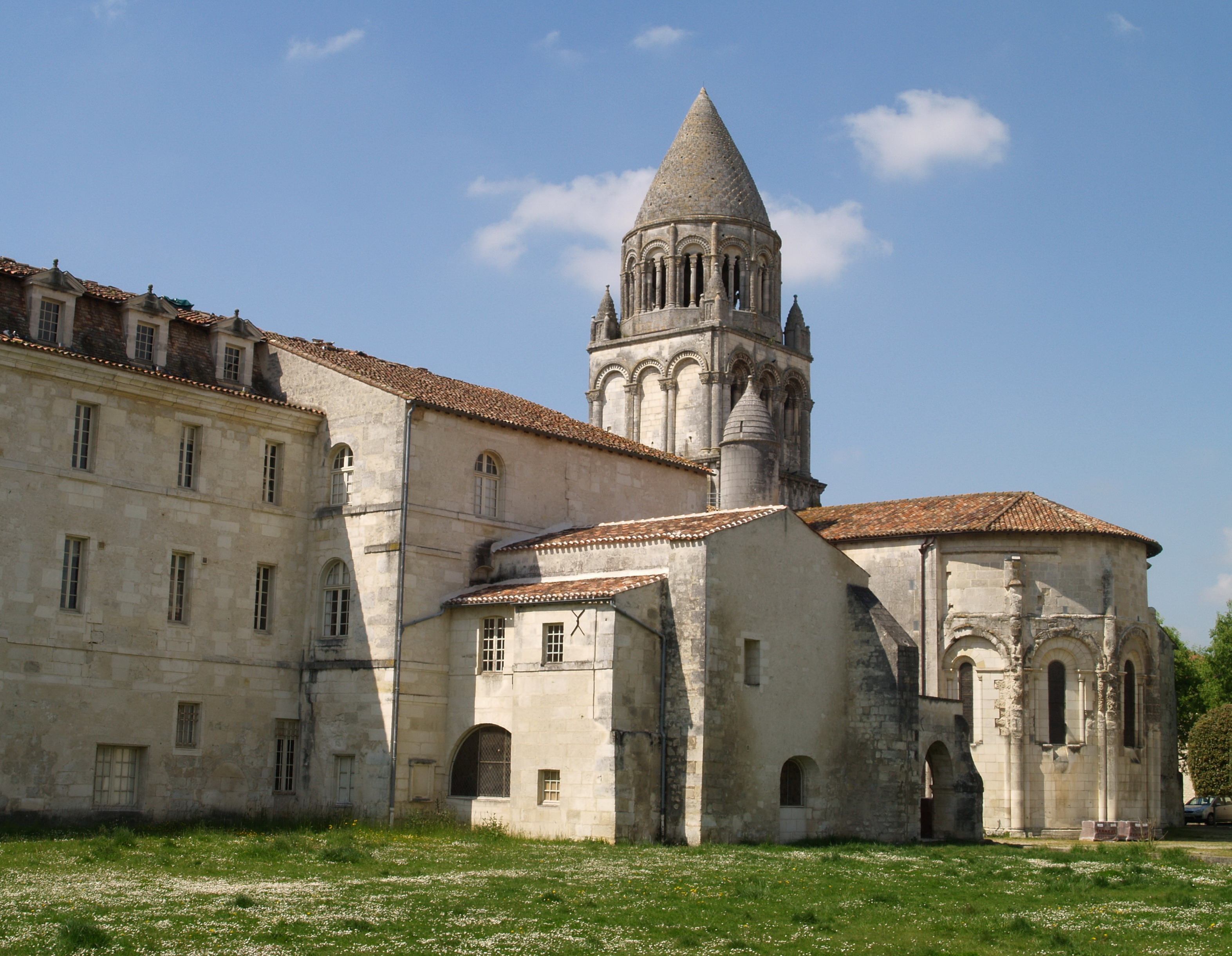 Sainte-Marie-des-Dames (Abbaye-aux-Dames), Saintes (Charente-Maritime, France) - Apse and church tower.